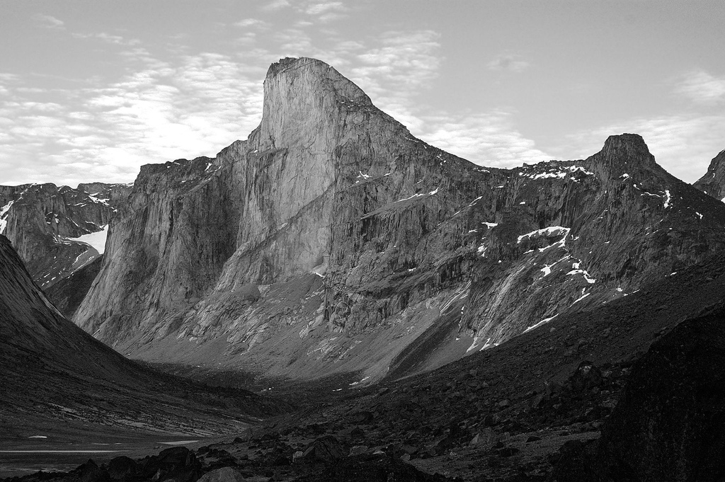 At more than 1 kilometre in height, Mt. Thor is the highest overhanging rock face in the world